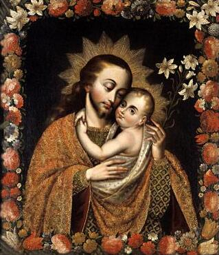 Saint Joseph and Jesus